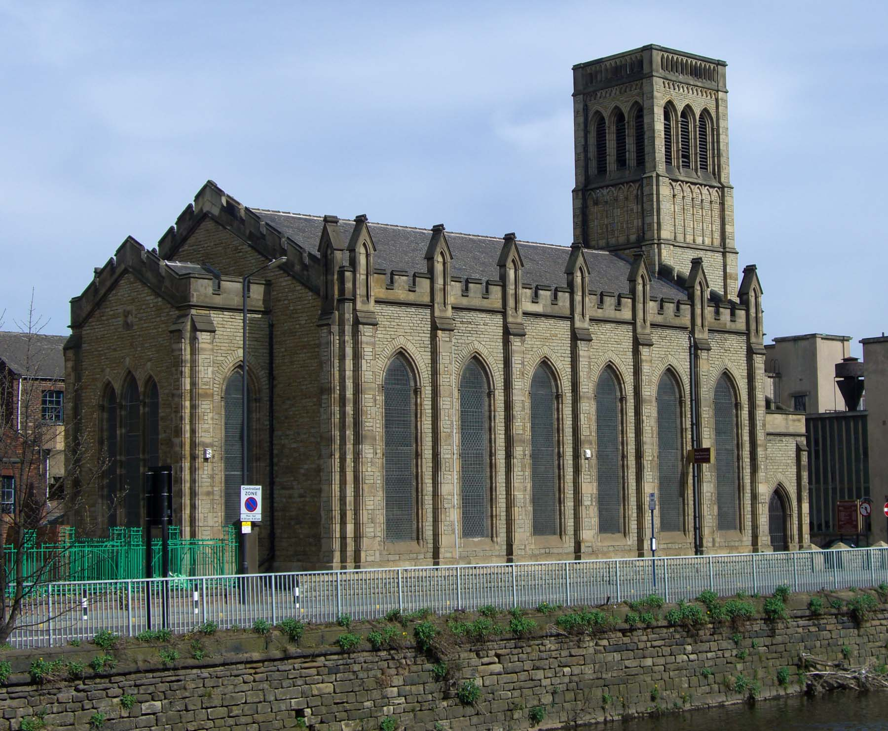 New Testament Church of God, Nursery Street, Sheffield, South Yorkshire, seen from the west from across the River Don. Built in 1848 as Holy Trinity parish church.